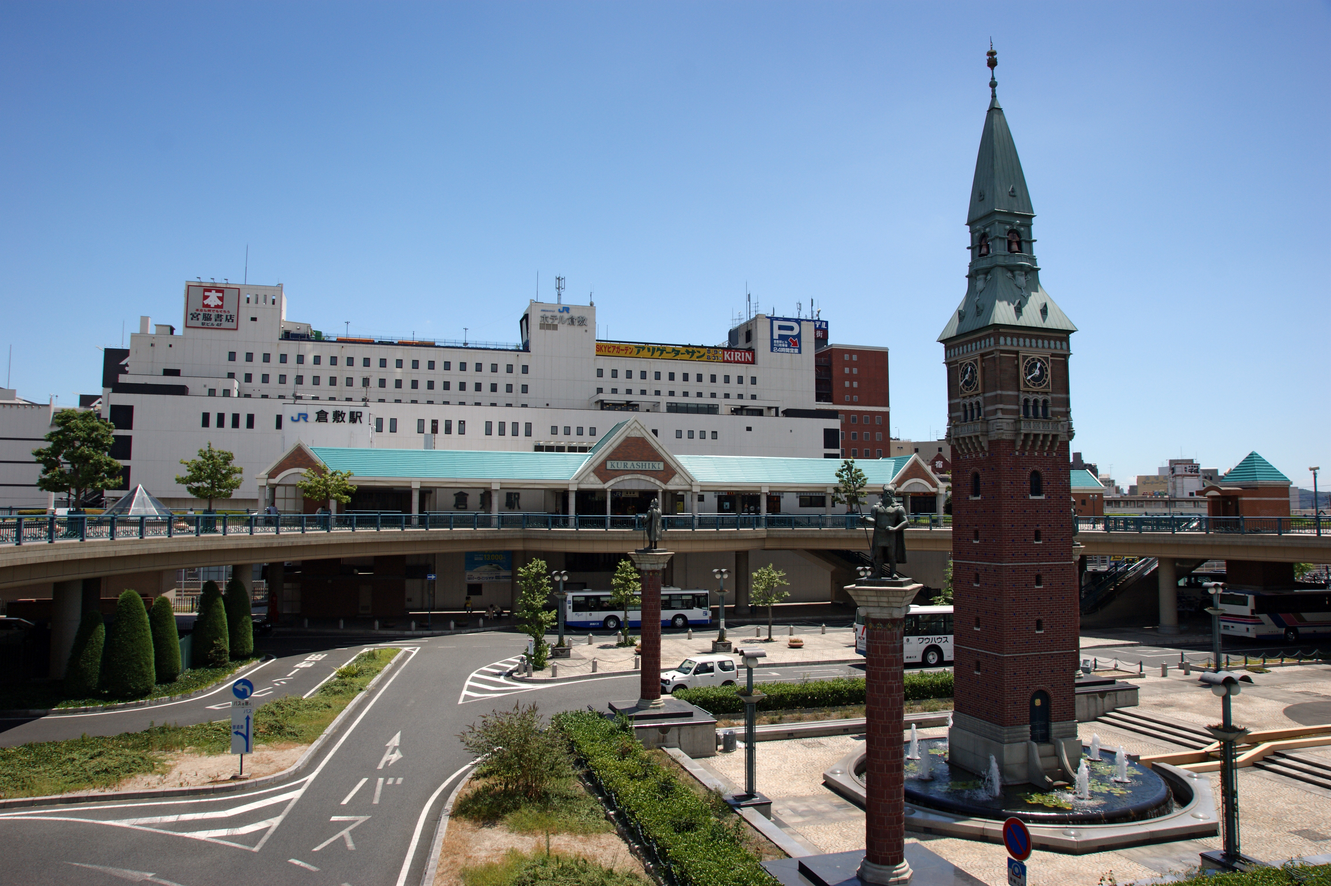 Kurashiki Station in Kurashiki, Okayama prefecture, Japan